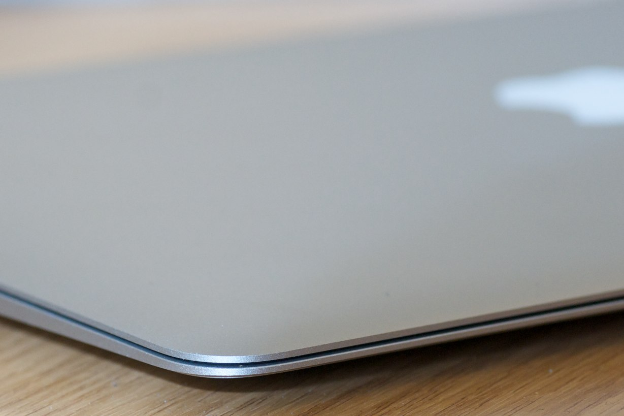 11" MacBook Air